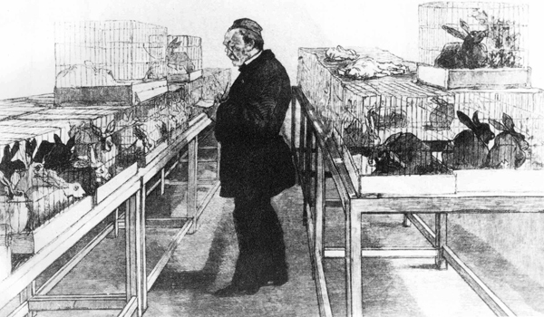 Louis Pasteur observing rabbits injected with the rabies virus.